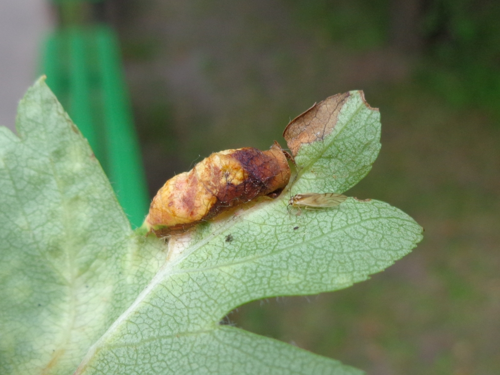 Fungus Taphrina crataegi (Fungi: Taphrinaceae) on Crataegus laevigata (Plantae: Rosaceae) with Valenzuela flavidus (Insecta: Psocoptera: Caeciliusidae). Found in Rīga town, Latvia